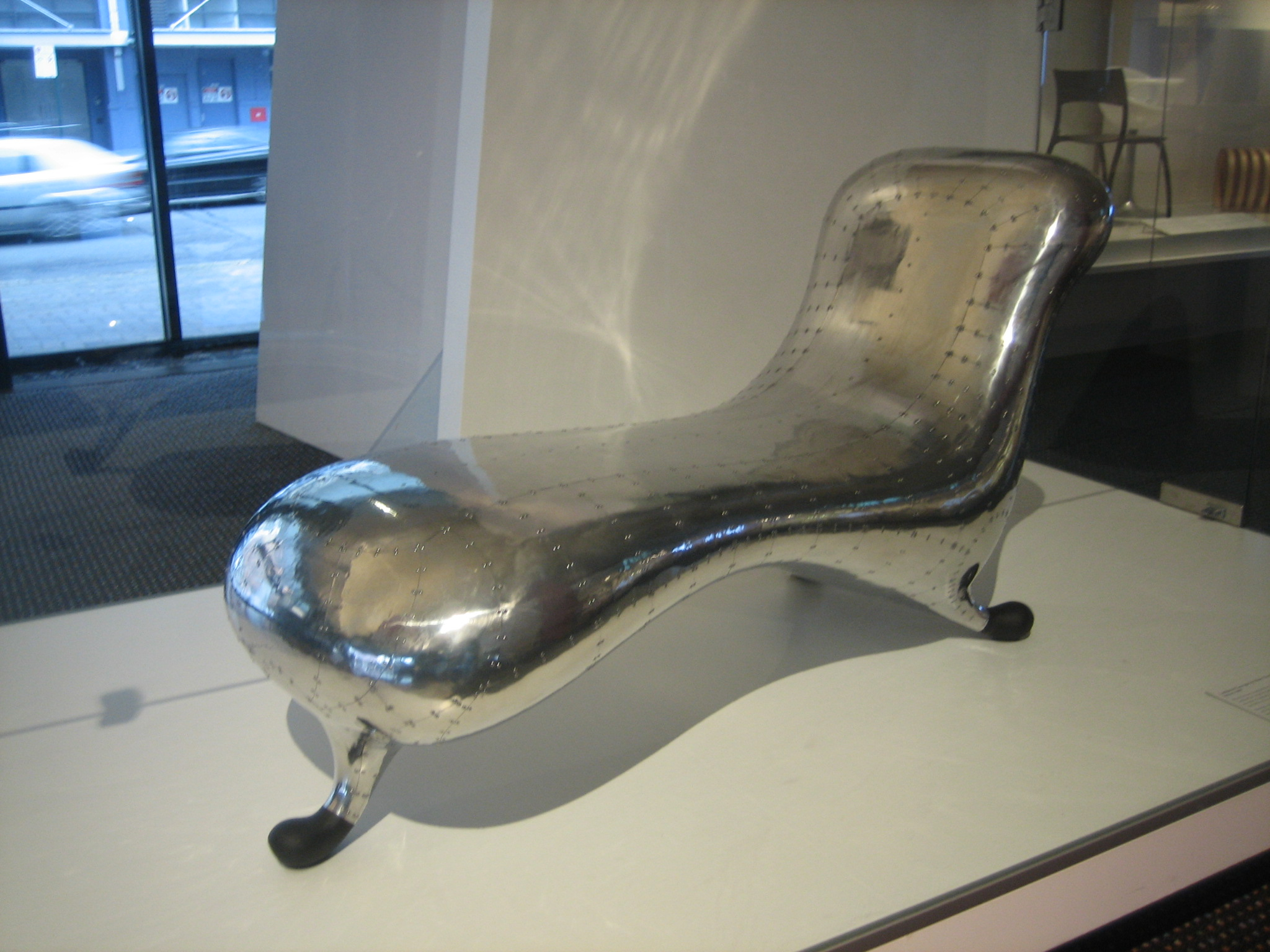 Marc Newson (Australian, born 1963): Lockheed lounge, 1986-88, Powerhouse Museum, Sydney, New South Wales, Australia.